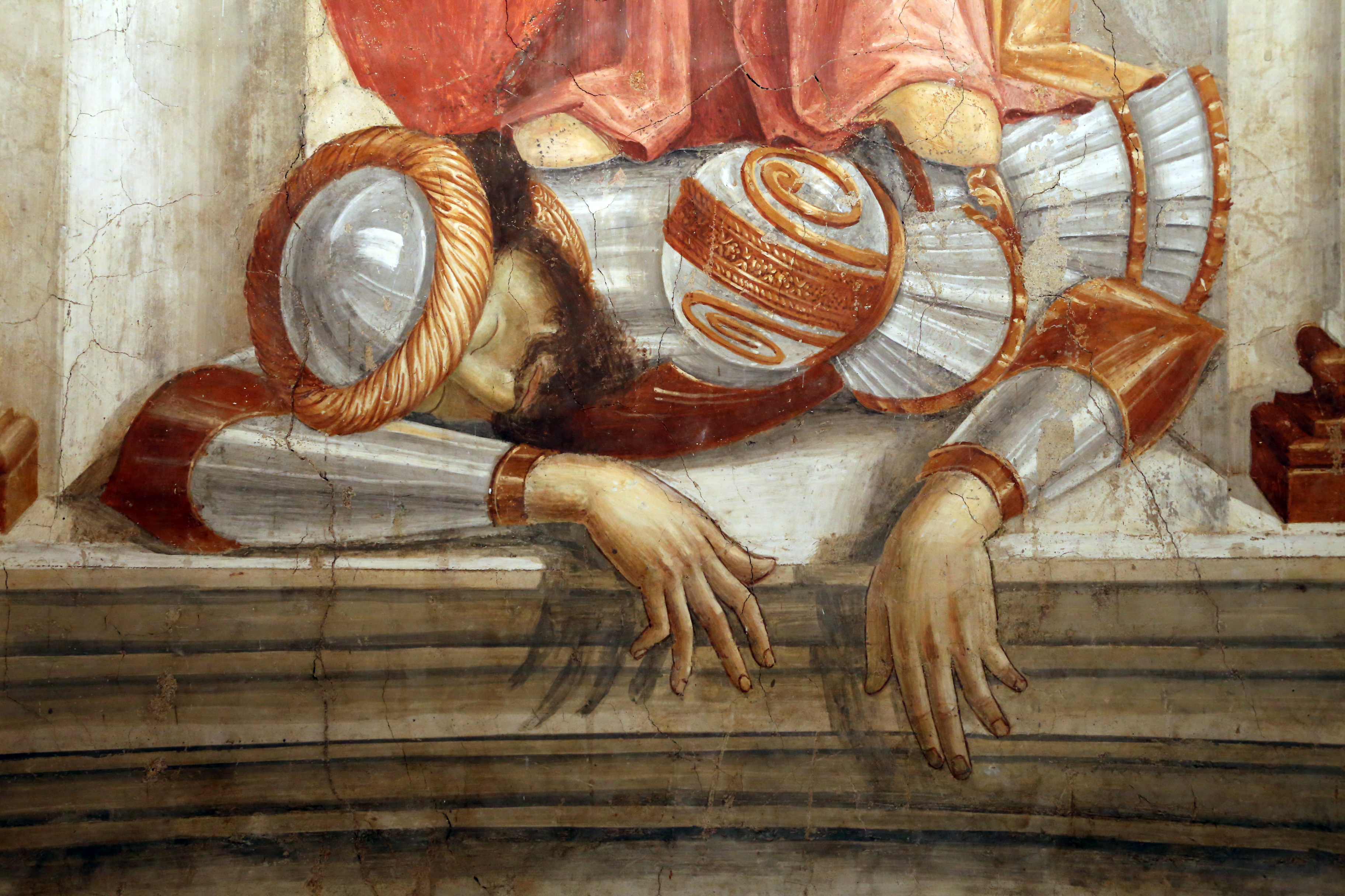 Three saints fresco by Ghirlandaio